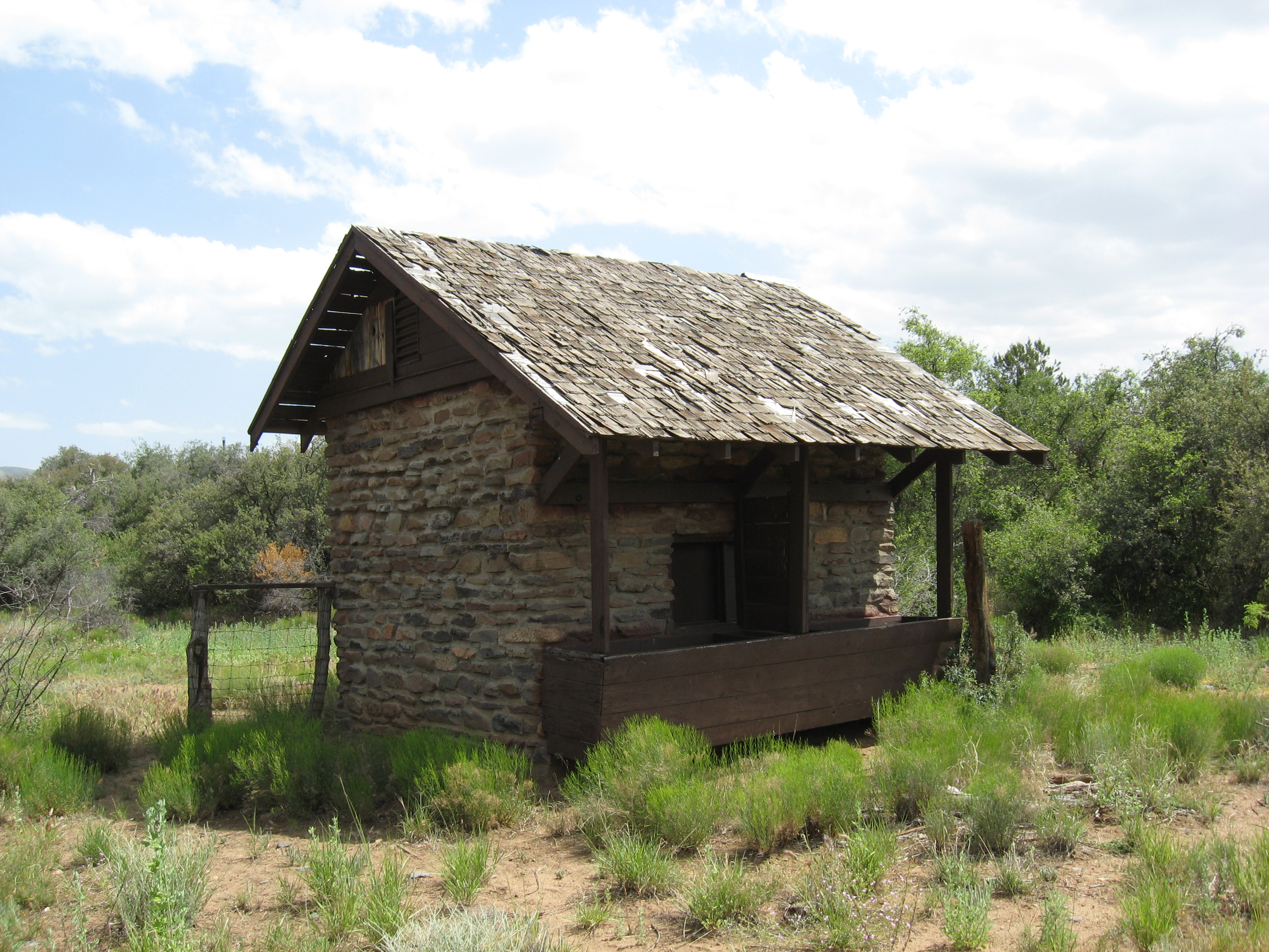 Copper Creek ranger station outbuilding, May 2008